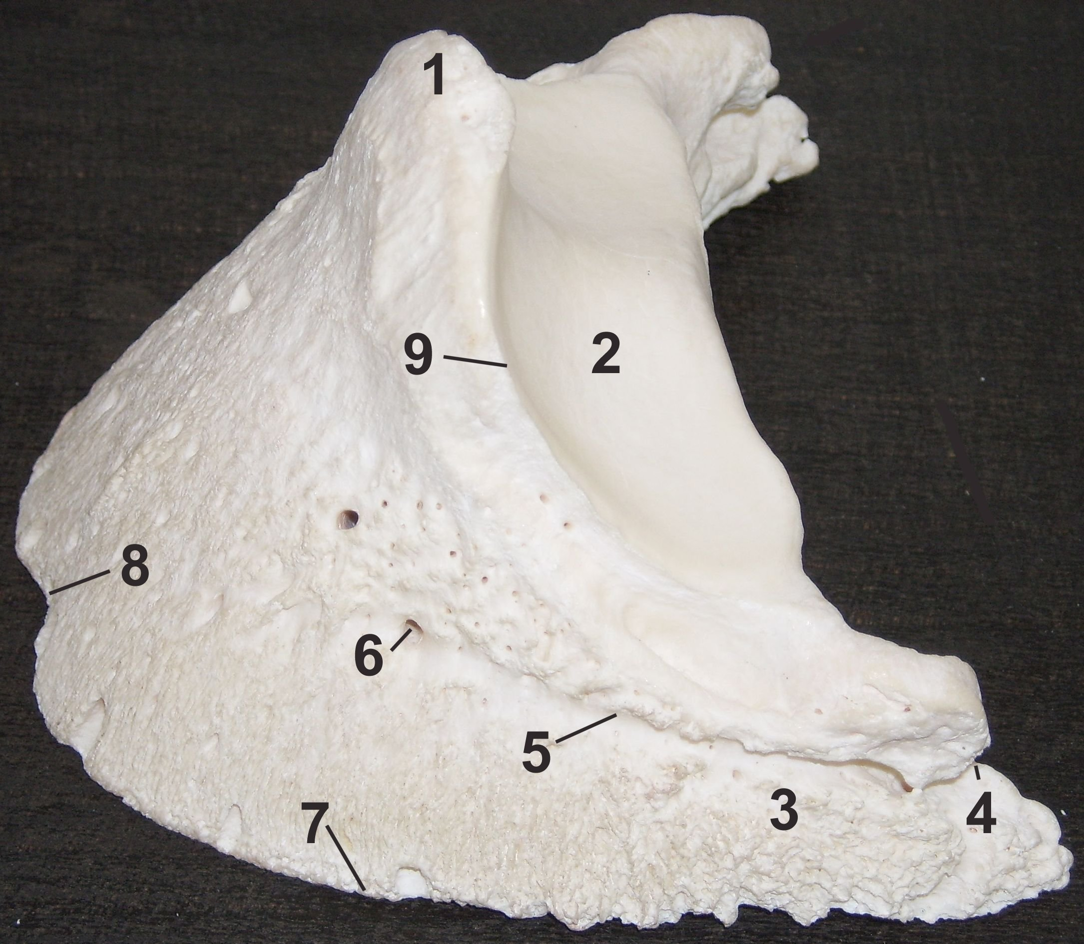 Os ungulare of a horse. 1 Processus extensorius, 2 Facies articularis 3 Processus palmaris, 4 Incisura processus palmaris, 5 Sulcus parietalis, 6 Foramen parietale, 7 Margo solearis, 8 Crena marginis solearis, 9 Margo coronalis